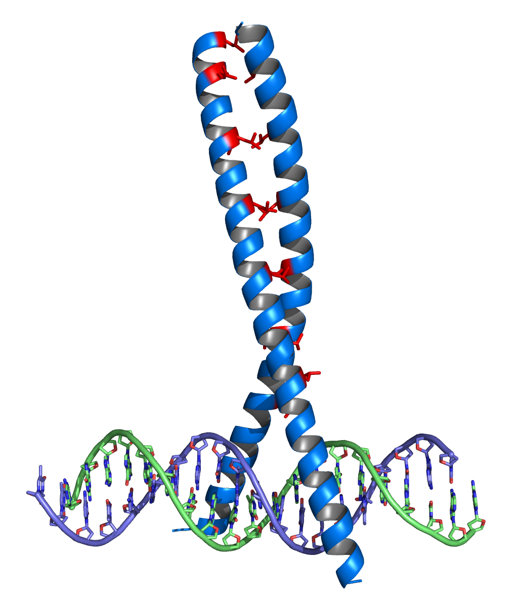 Leucine Zipper bound to DNA; based on PDB ID 1FOS